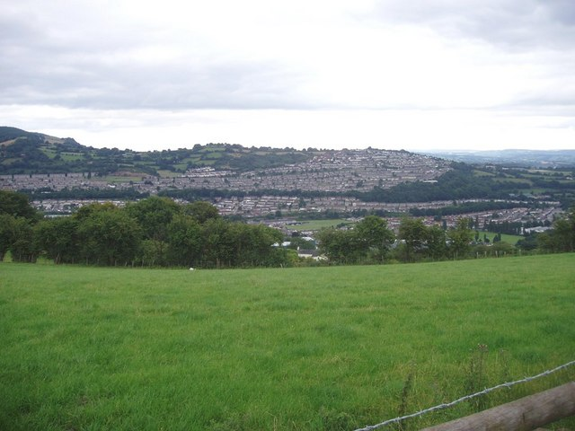 Risca-panorama